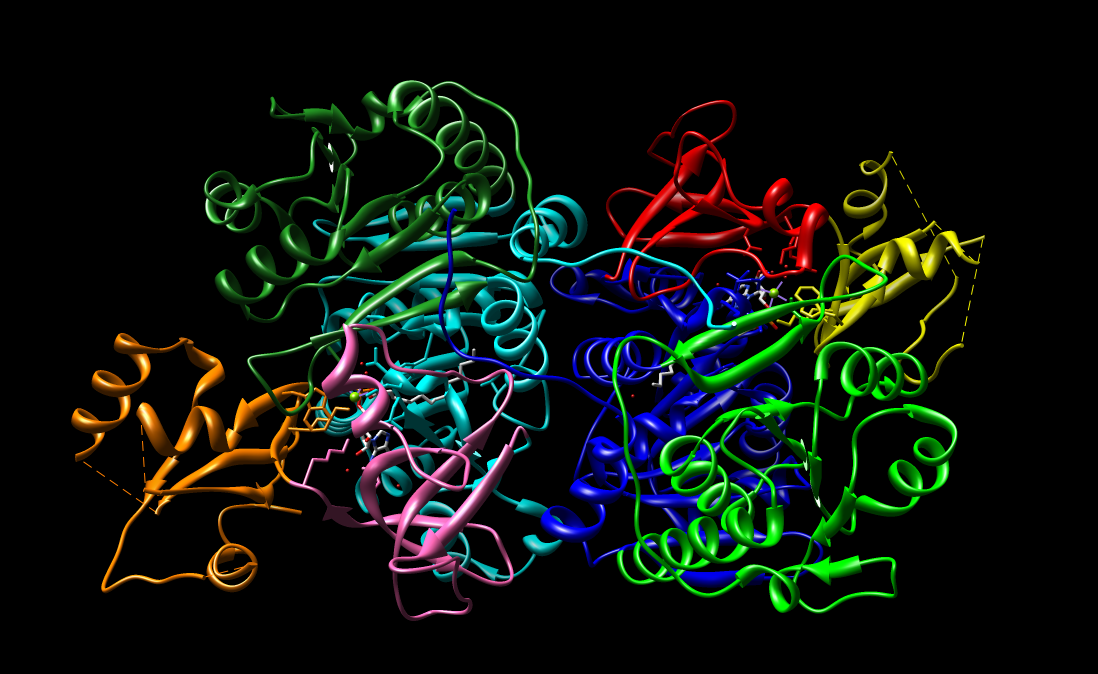 Conserved Domains